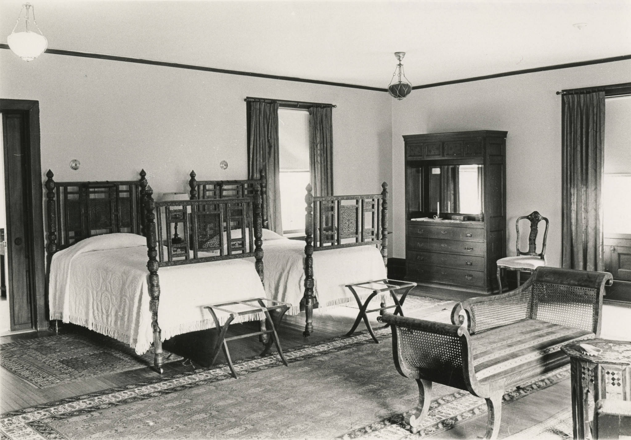 The Deanery, Interior View, Miss Garrett's Bedroom, Bryn Mawr College